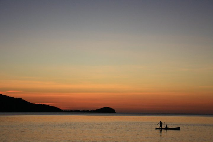 Two Garifuna fishermen during sunset in a cayuko between Cayo Grande and Cayo Menor, Cayos Cochinos, Honduras.